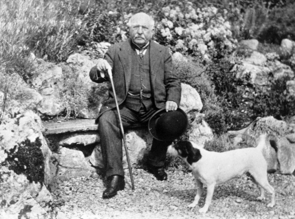 Pastoralist and politician De Burgh Fitzpatrick Persse, ca. 1920. Later photograph of De Burgh Persse, pictured with his dog in the garden, possibly at his property Tabragalba at Beaudesert.